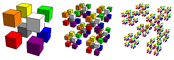 Iterations of 3D Cantor dust